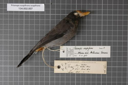 Prionops scopifrons scopifrons (Peters, 1854)